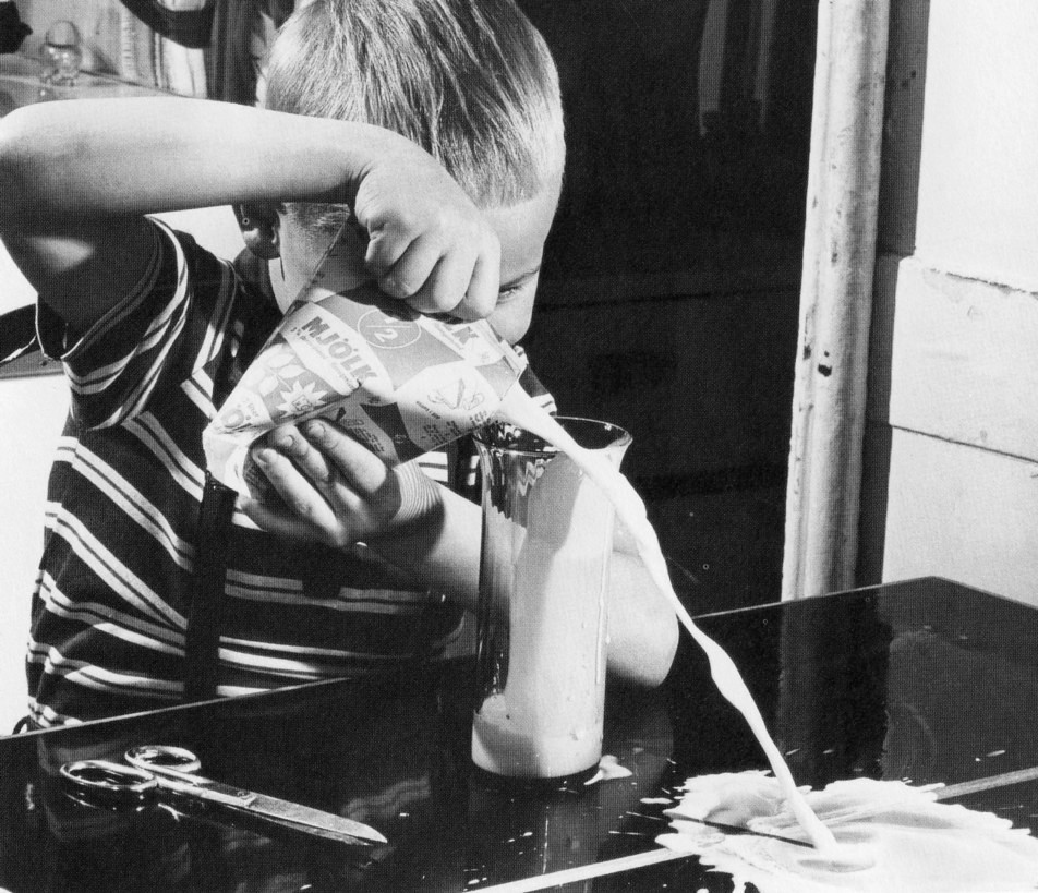 Taking milk from a Tetra Pak 1965